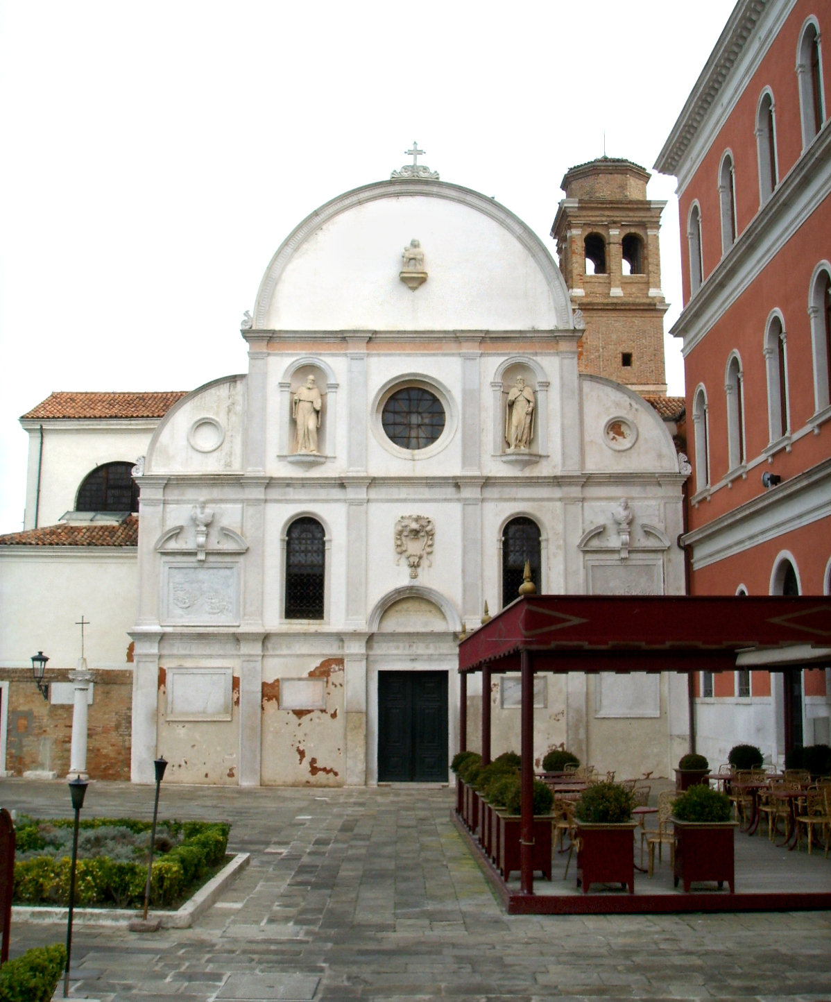 Baroque church facade of San Clemente — on Isola di San Clemente, Venice lagoon.